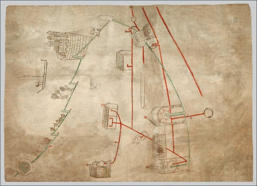 Waterworks of the Priory and Christ Church Cathedral in Canterbury. Simplify drawing.